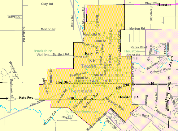 Map of Katy, Texas